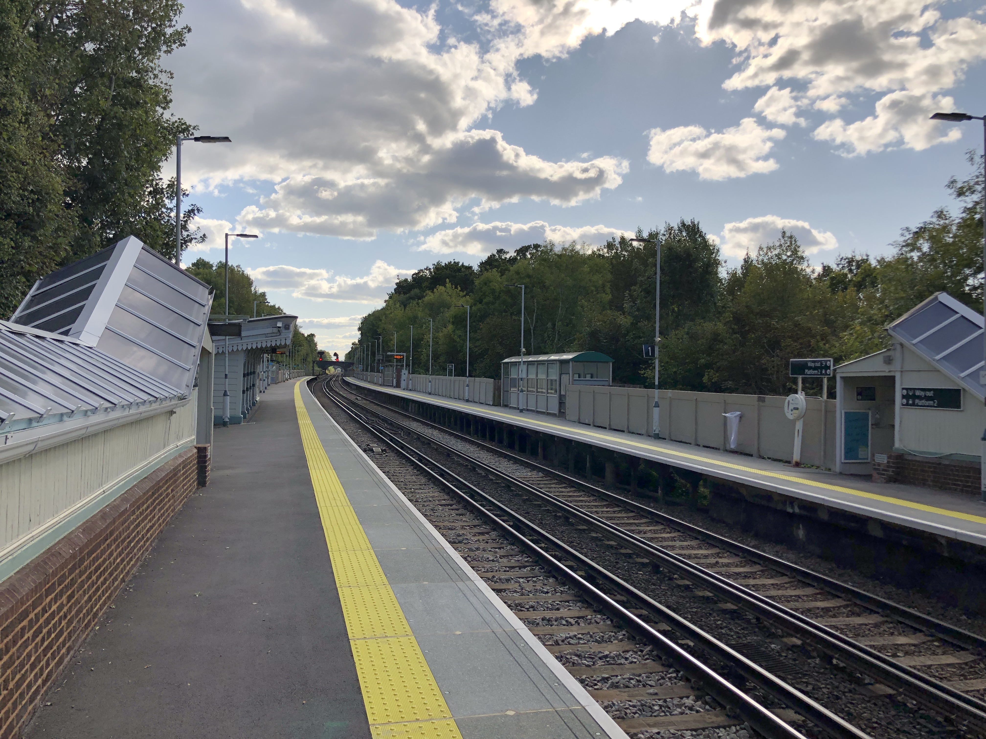 The platforms at Wivelsfield railway station, looking south towards Brighton